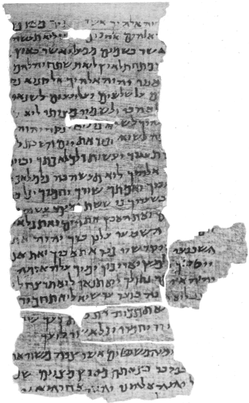 The Nash Papyrus, a collection of four papyrus fragments acquired in Egypt by W. L. Nash and first described by Stanley A. Cook in 1903. The fragments were the oldest Hebrew fragments known at that time which contained a portion of the biblical pre-Masoretic text, specifically the Ten Commandments and the Shema Yisrael prayer. The order the commandments listed in the Nash papyrus differs from that of the Hebrew Bible and Septuagint. See David Noel Freedman, The Nine Commandments (Doubleday, 2000) p.87. Though dated by Cook to the 2nd century, subsequent reappraisals have pushed the date back to the 2nd century BC. In addition to biblical text, it also exhibits a few unique readings. The papyrus was probably copied from a liturgical work.